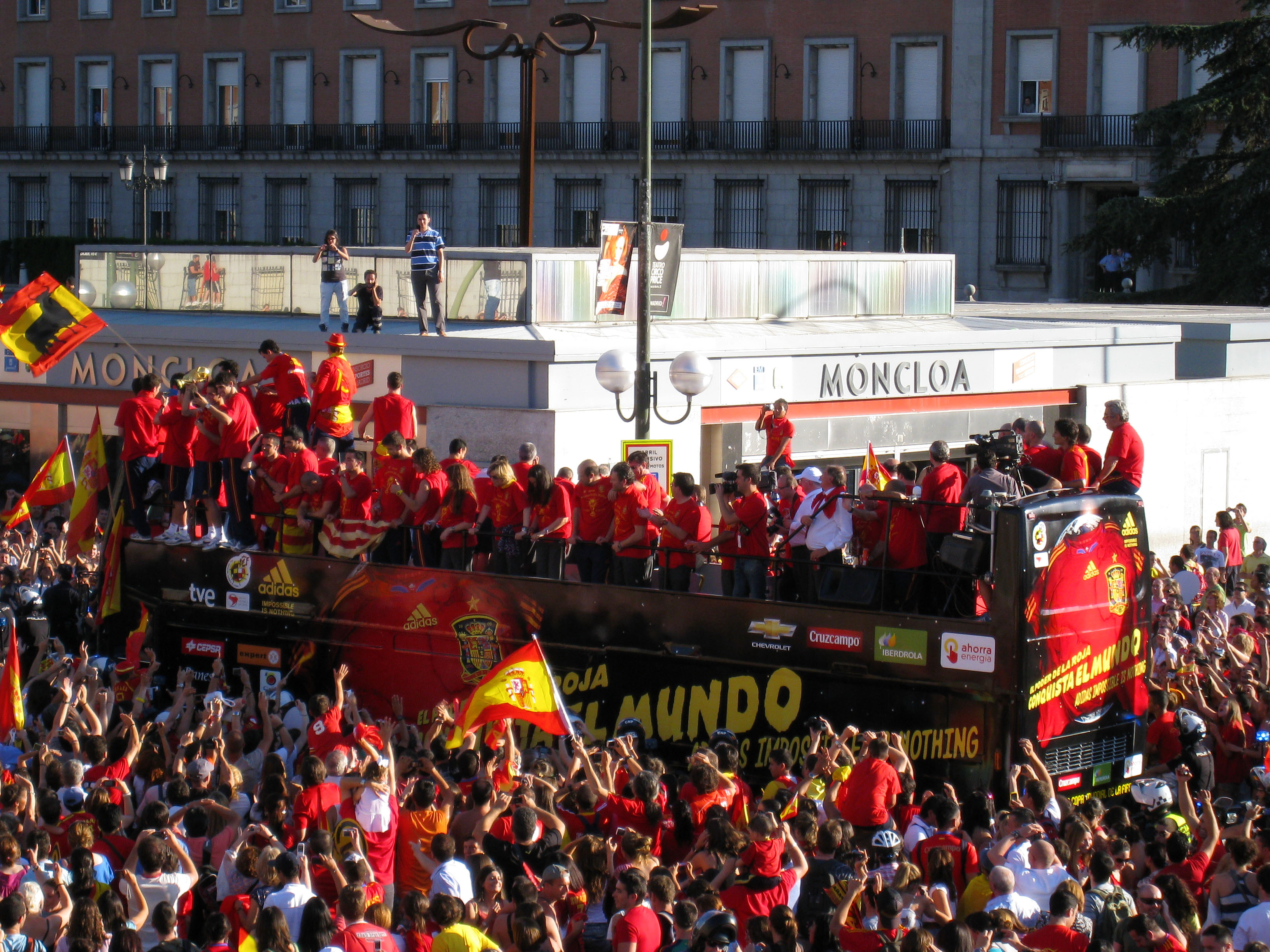 World Cup champions celebrate as they pass in front of the Air Force Headquarters in Madrid.